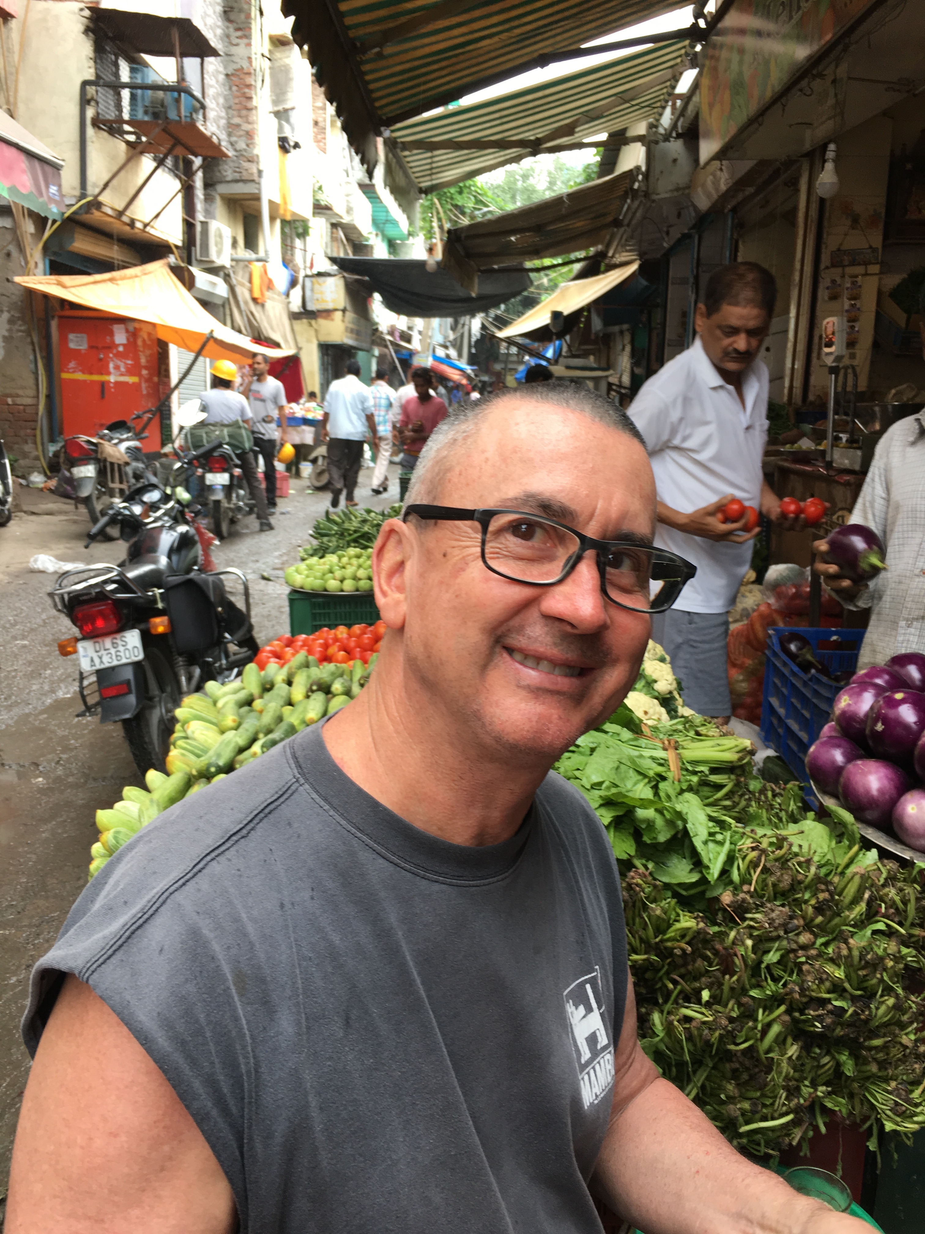 Craig Bloxom pictured in India in 2018.